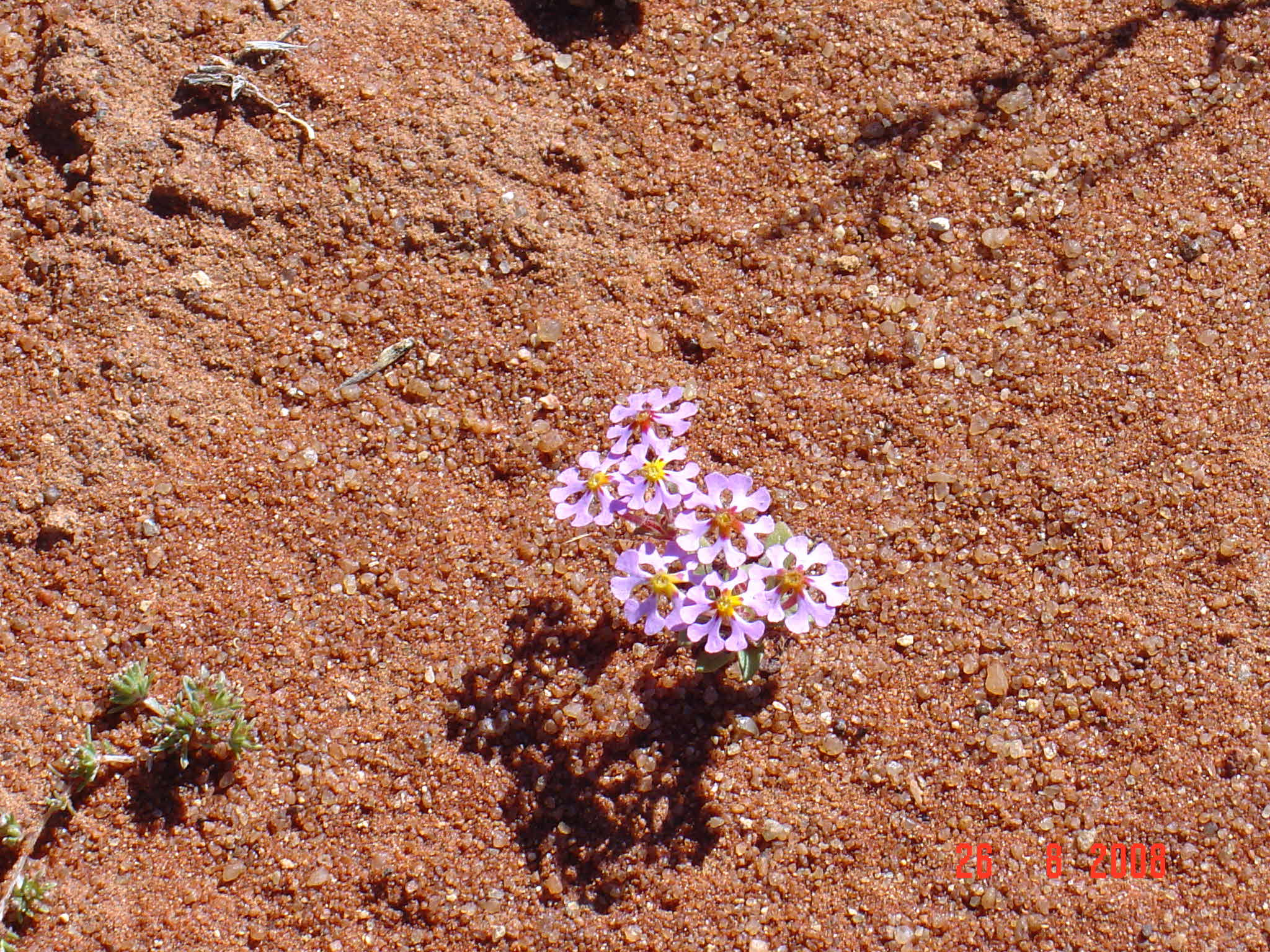 A tiny species of Zaluzianskya photographed in the grounds of the Vaalputs radioactive waste repository in South Africa. The area is very arid and the plant appeared after unusually good rain. The inflorescence is larger than the parent plant, but measures only about 2X4 cm.